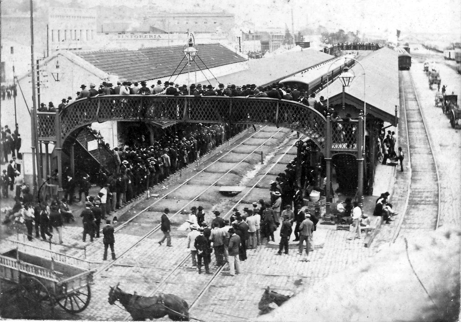 View of old Retiro railway station of Central Argentine Railway. The station was not still terminus by then, so its tracks continued to Central Station.